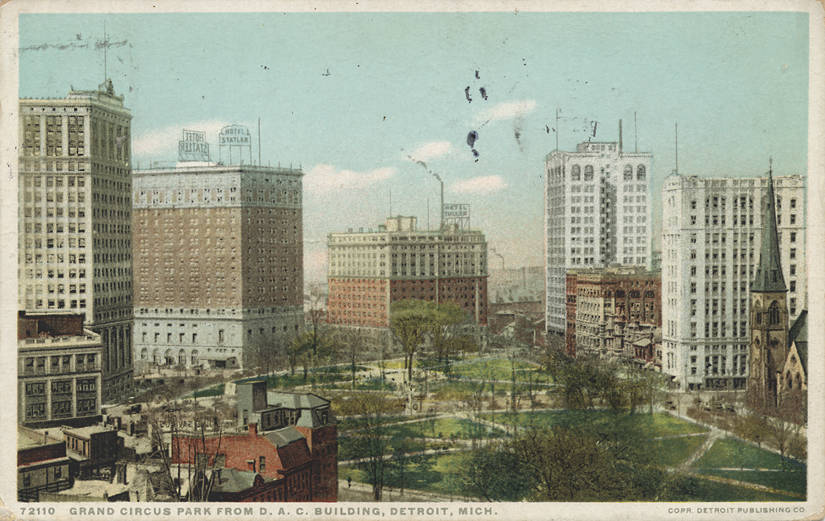 Grand Circus Park from D.A.C. Building